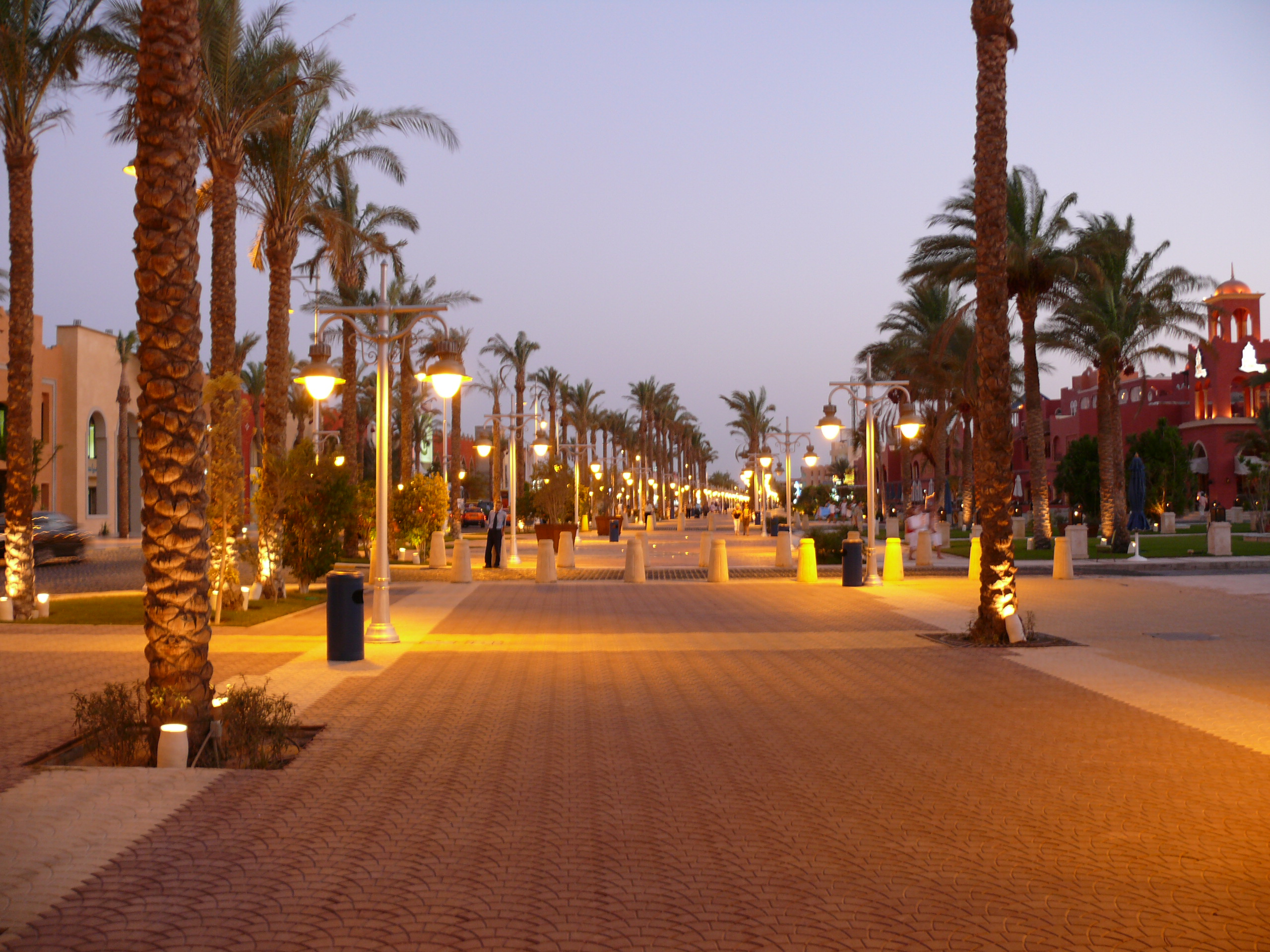 Walk way in Hurghada by night.